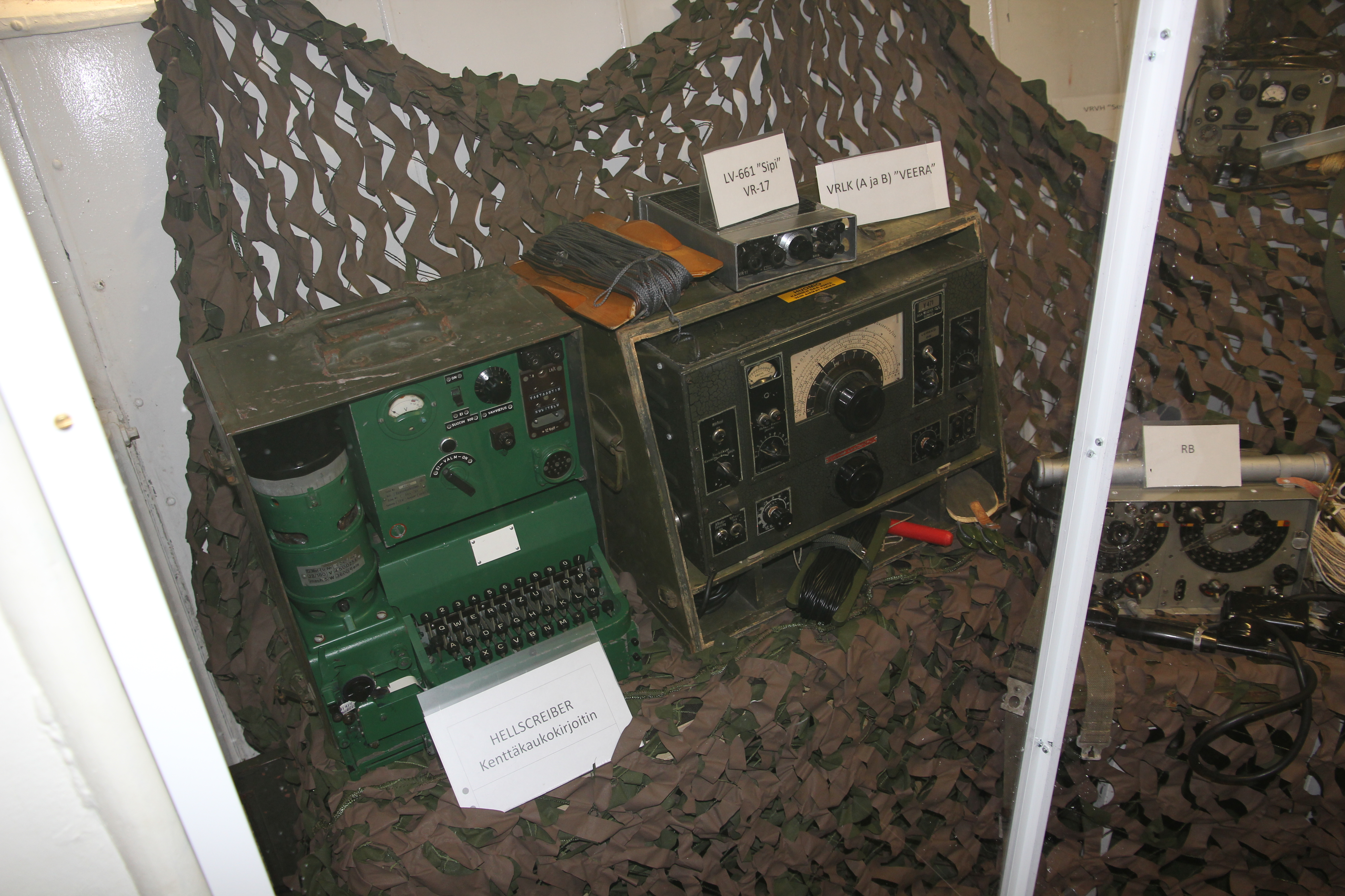 Military radio exhibition onboard Keihässalmi in Forum Marinum. These radios were not used on the ship. The picture includes a German World War 2 Hellschreiber teleprinter, Finnish 1960s patrol radio LV-661 "Sipi" VR-17, Finnish World War 2 radio receiver VRLK "Veera" and captured Soviet World War 2 agent radio RB (ΤИП-ΡЬ).